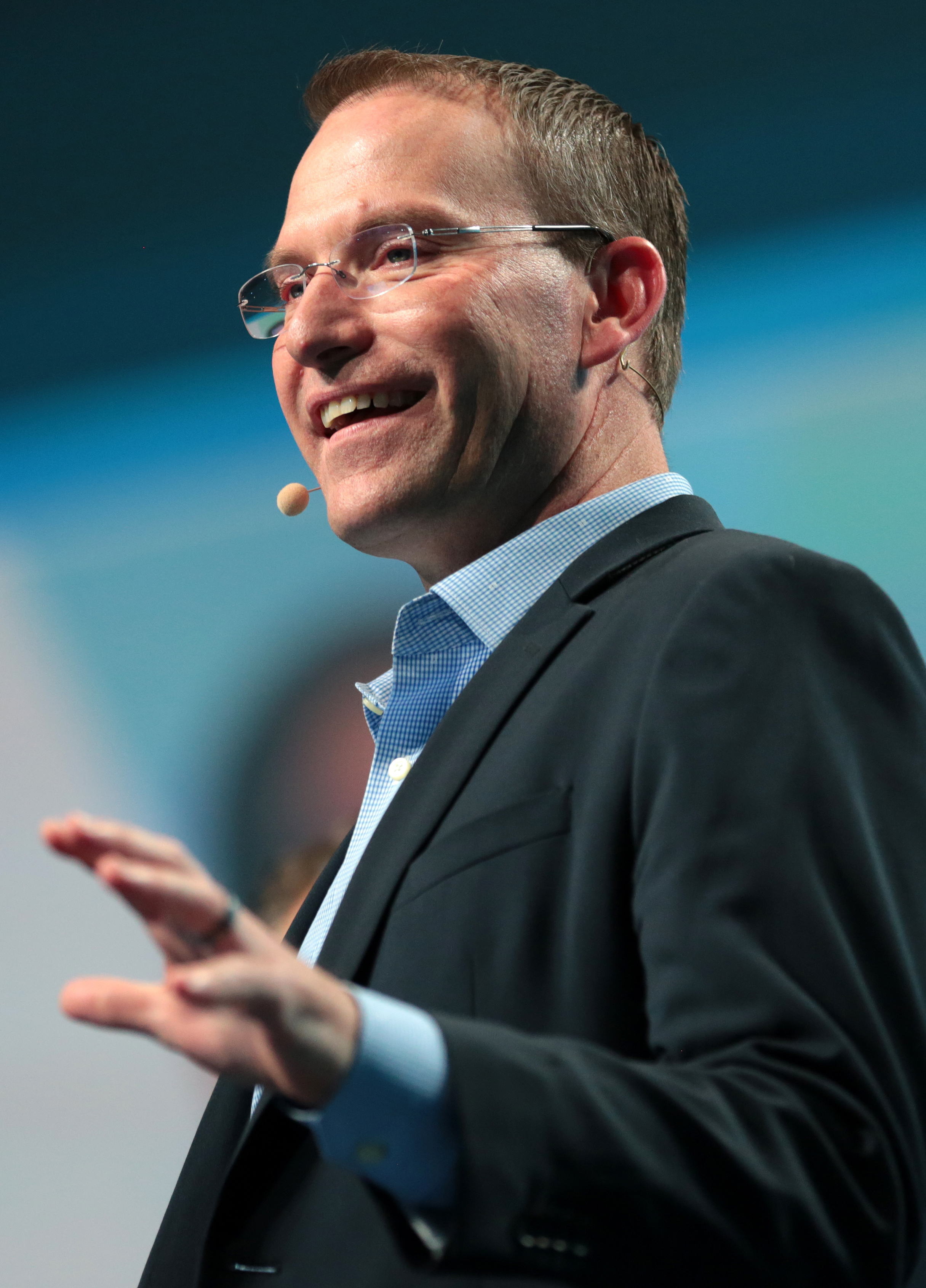 Clate Mask speaking at an event in Phoenix, Arizona